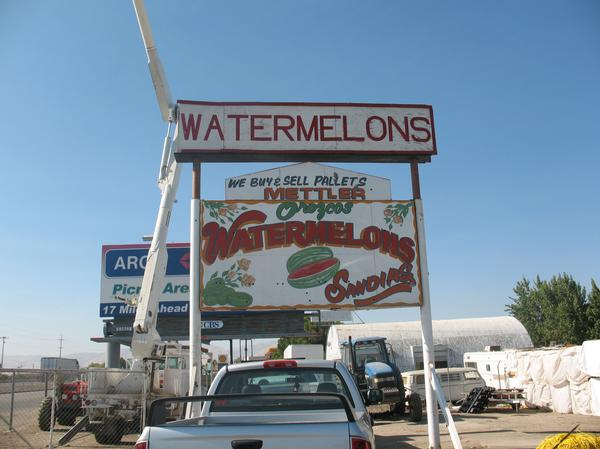 Photo from Mettler, California